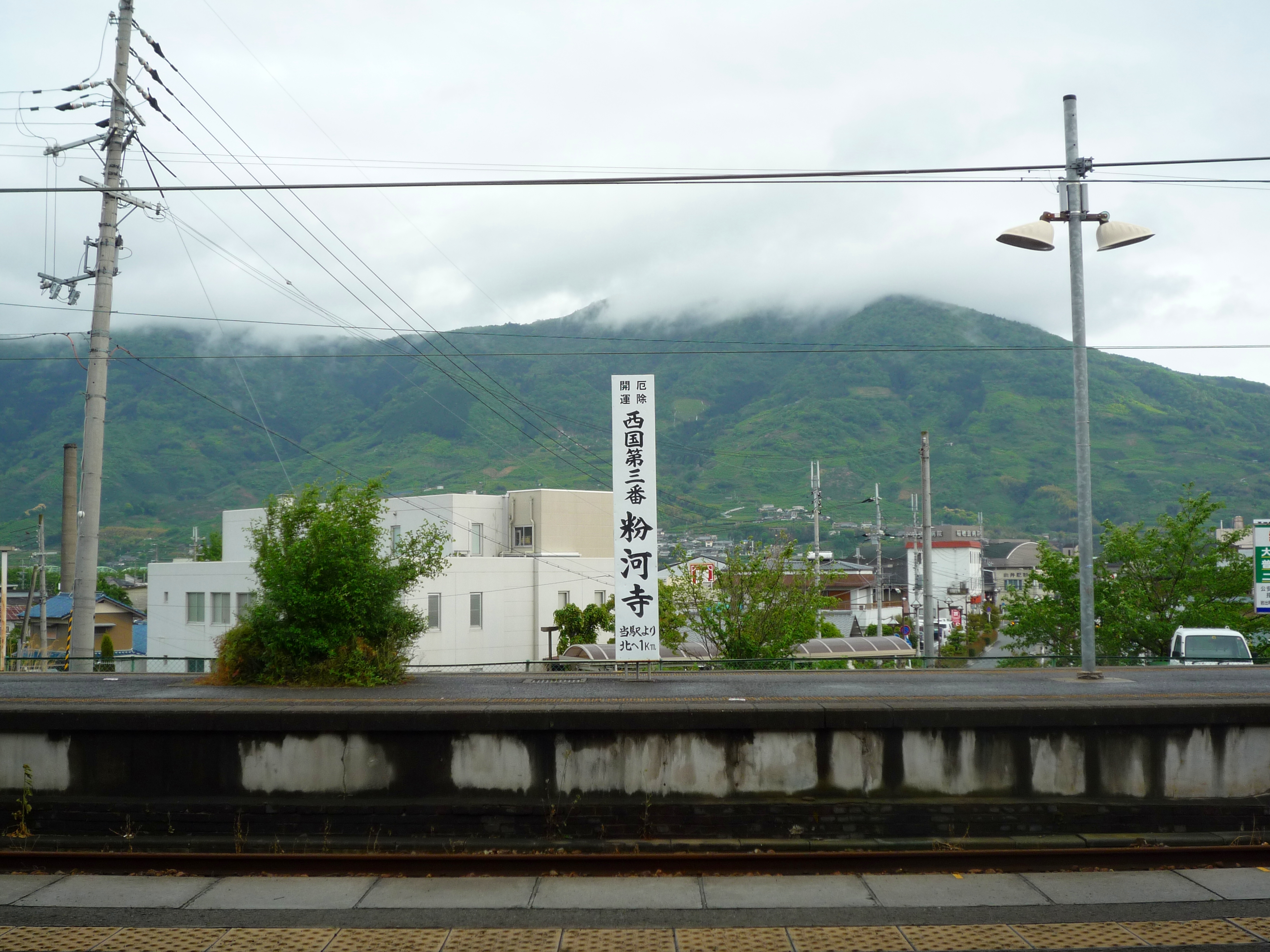 Ryūmon-Zan (Mt. Ryūmon) which seen from Kokawa Station Platform 1 in Kinokawa, Wakayama Prefecture, Japan.